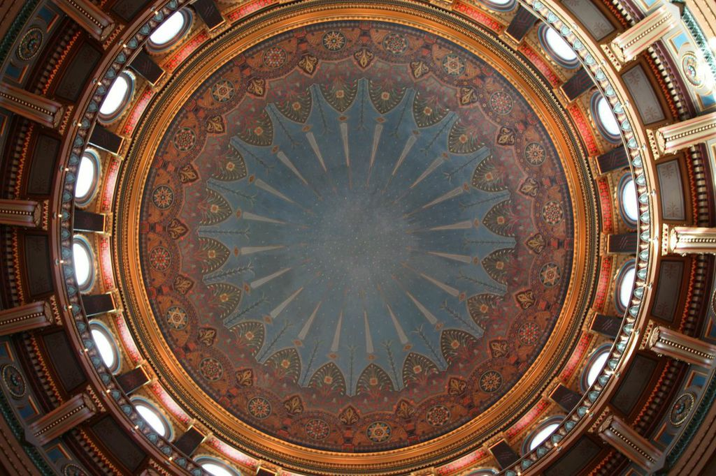 The rotunda of George B. Post's Williamsburgh Savings Bank building features an elaborate mural by artist Peter B. Wight, which was restored along with the rest of the building when it was converted into the event space Weylin in 2014